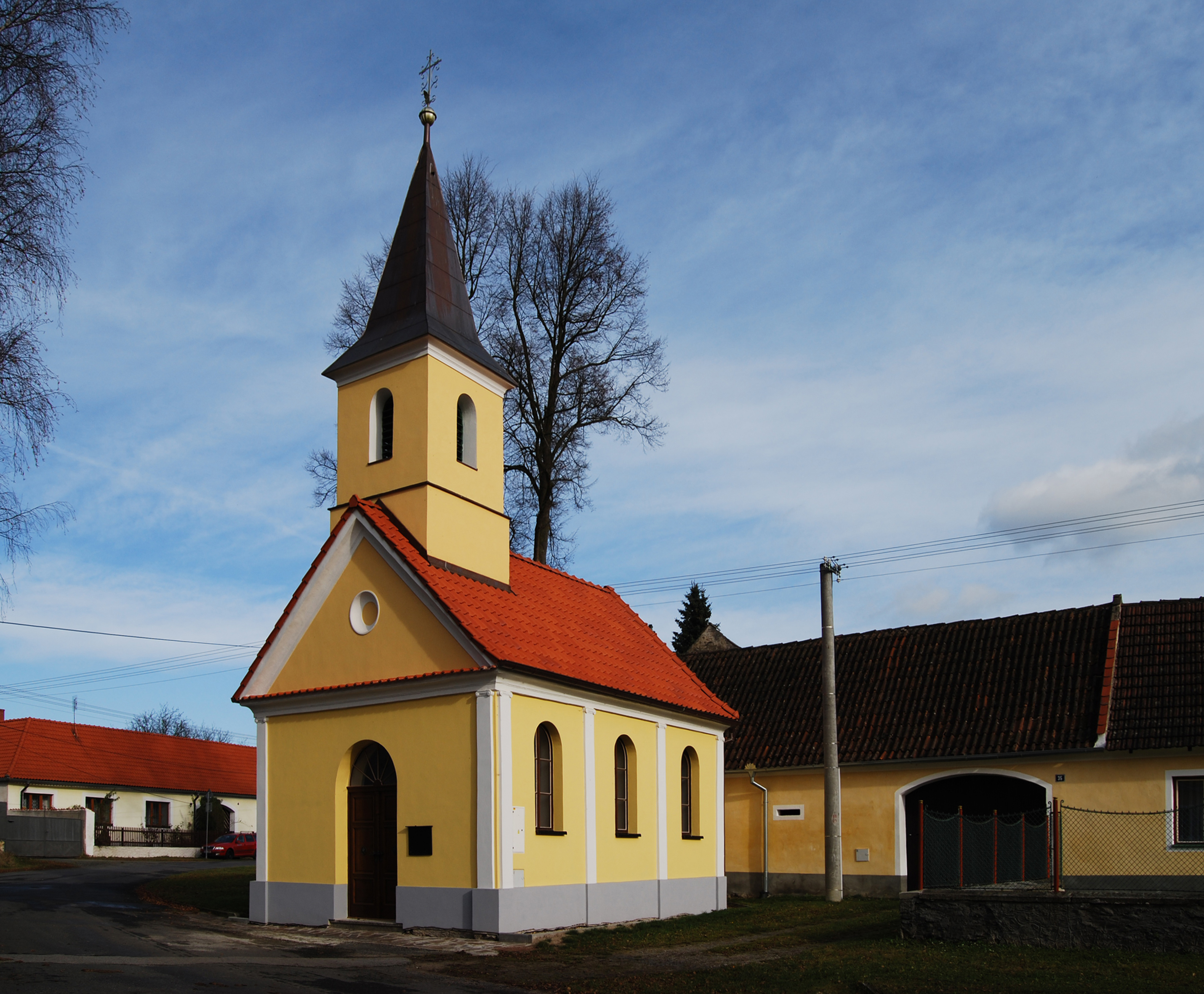 Hodonice village in Tábor District, Czech Republic. Chapel.